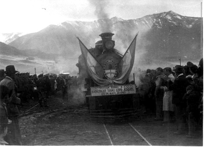 La Trochita making the inaugural trip of the Lepa-Esquel section.